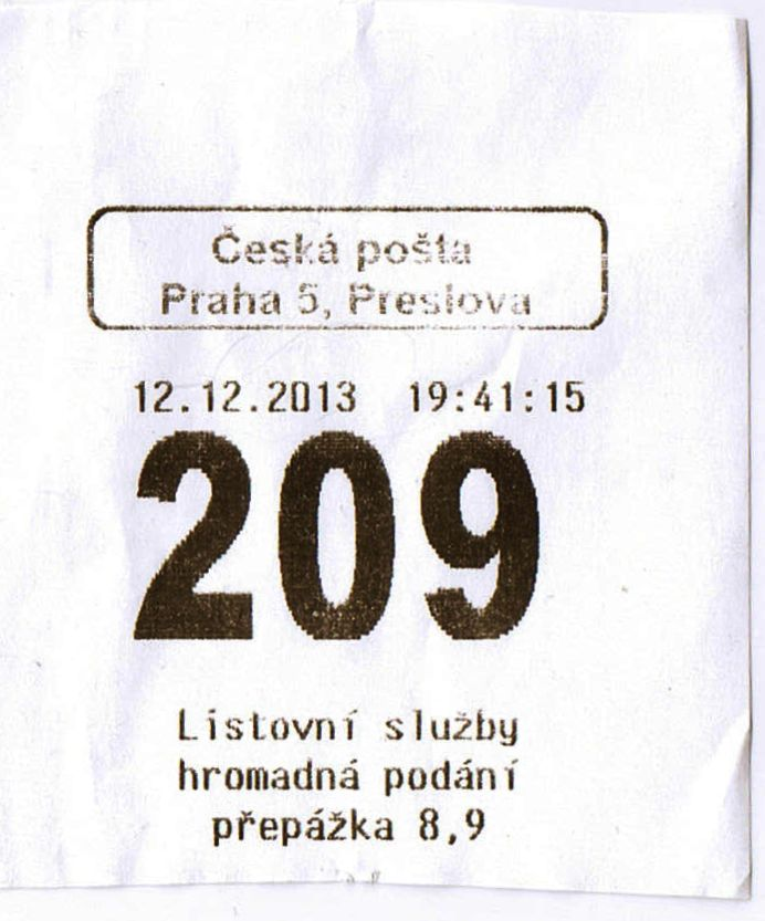 Waiting number ticket, Česká pošta (Czech Post).